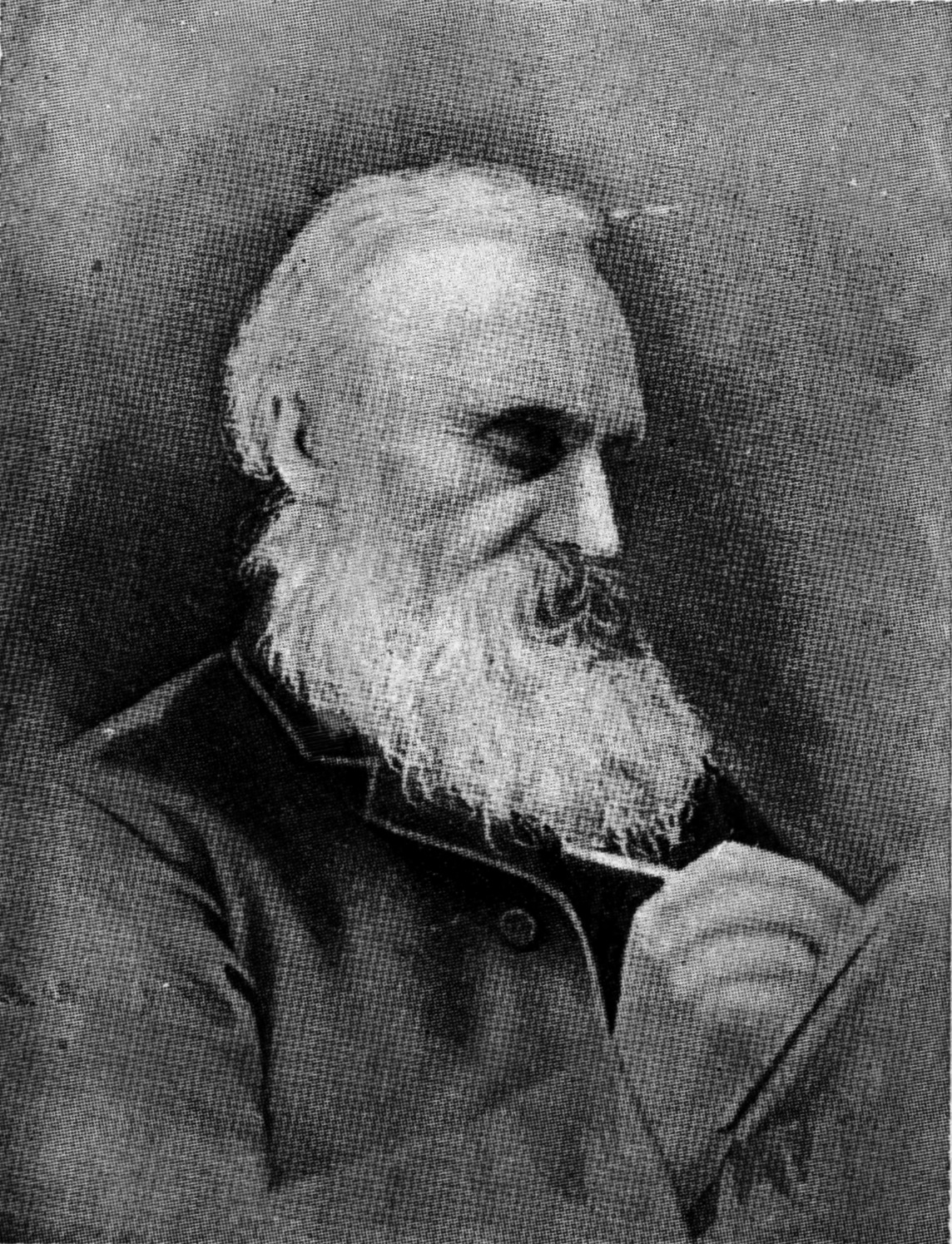 Lord Kelvin, from the book Biographies of Scientific Men